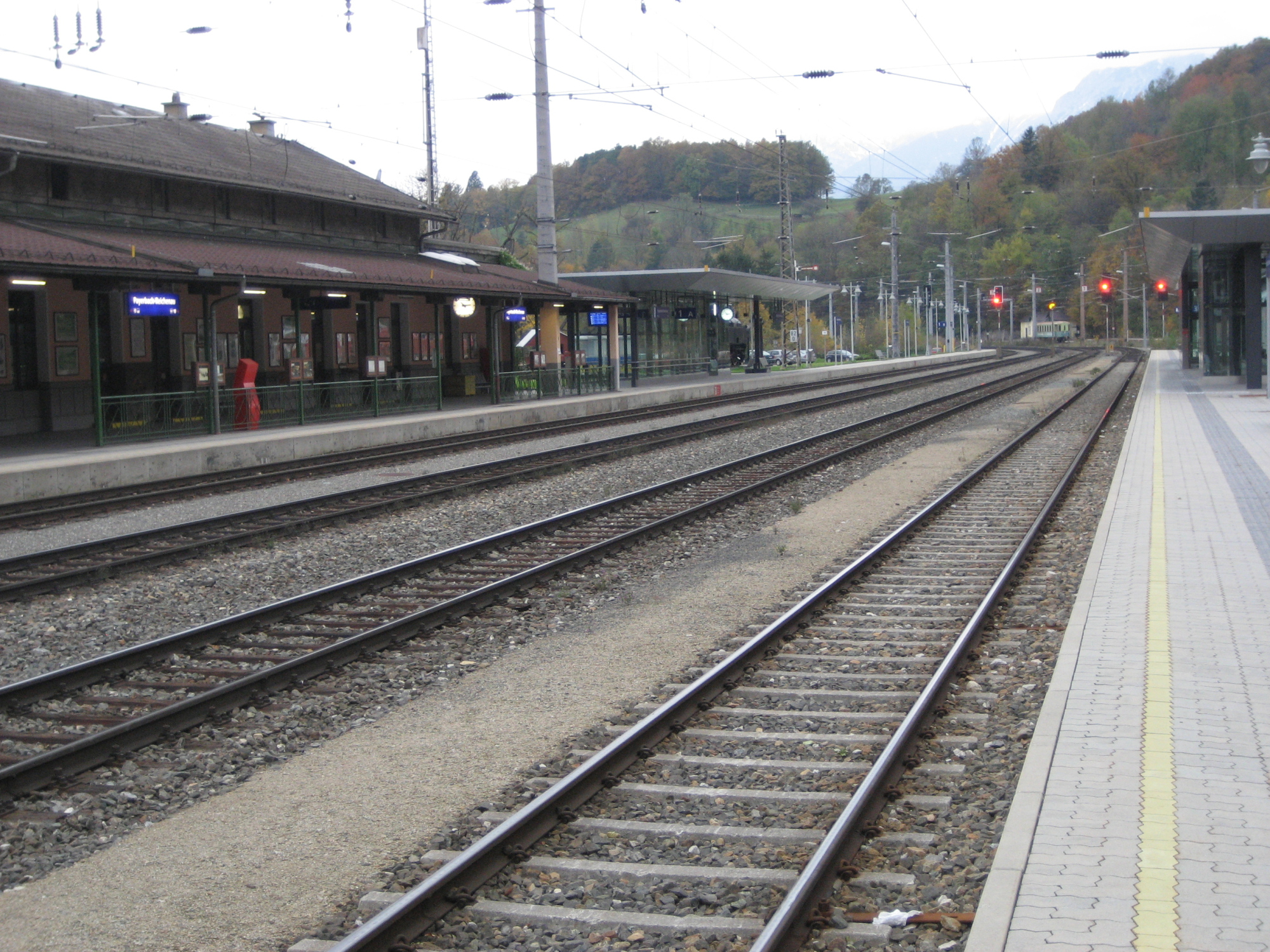 Payerbach-Reichenau train station in Lower Austria